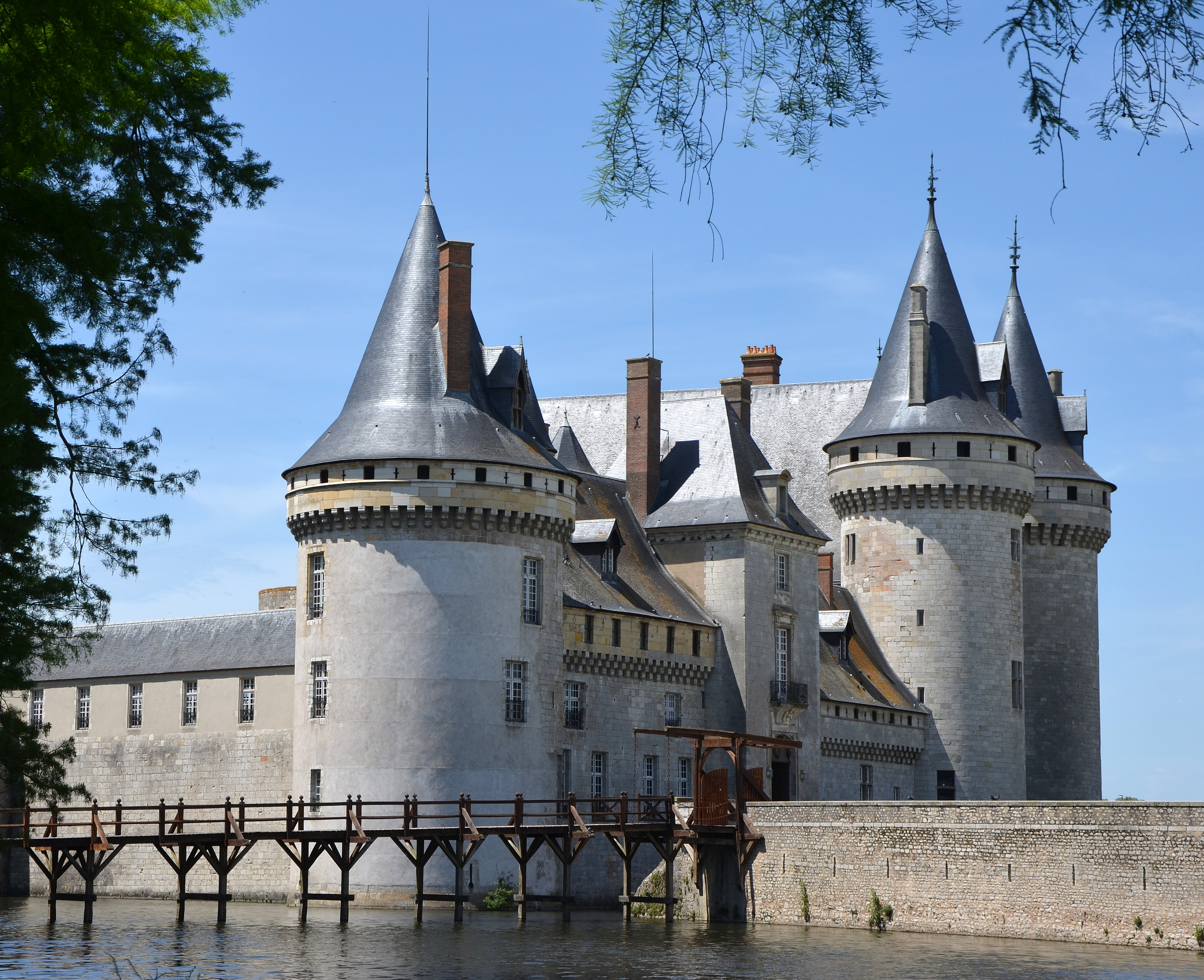 Castle of Sully sur Loire, Loiret, France